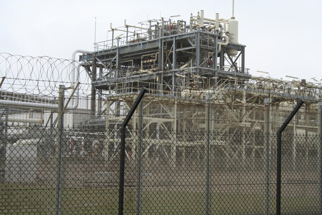 Bacton Gas Terminal